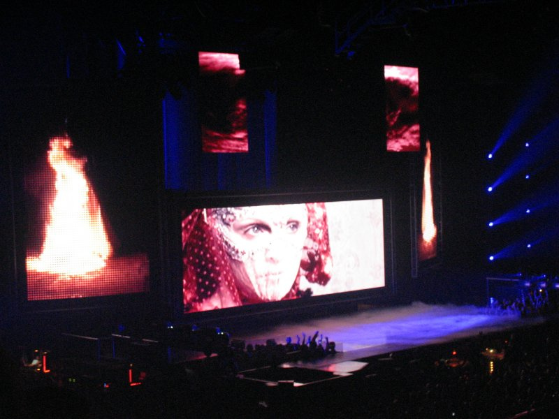 The opening of Madonna's Re-Invention Tour, "The Beast Within".